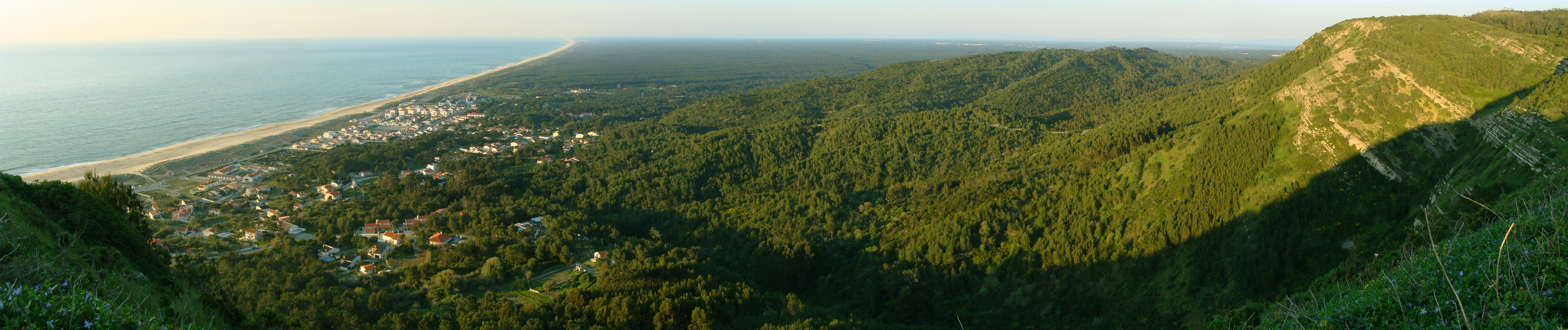 Serra da Boa Viagem, Quiaios, Portugal